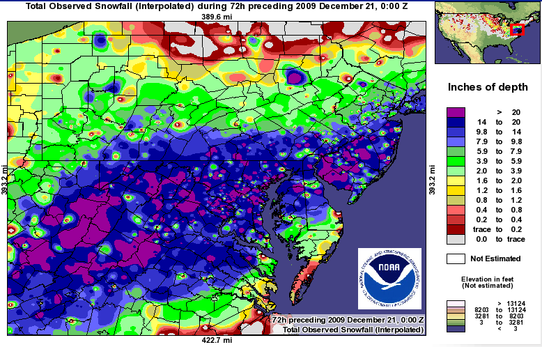 North American blizzard of 2009, snowfall accumulation map. Courtesy of the National Weather Service.